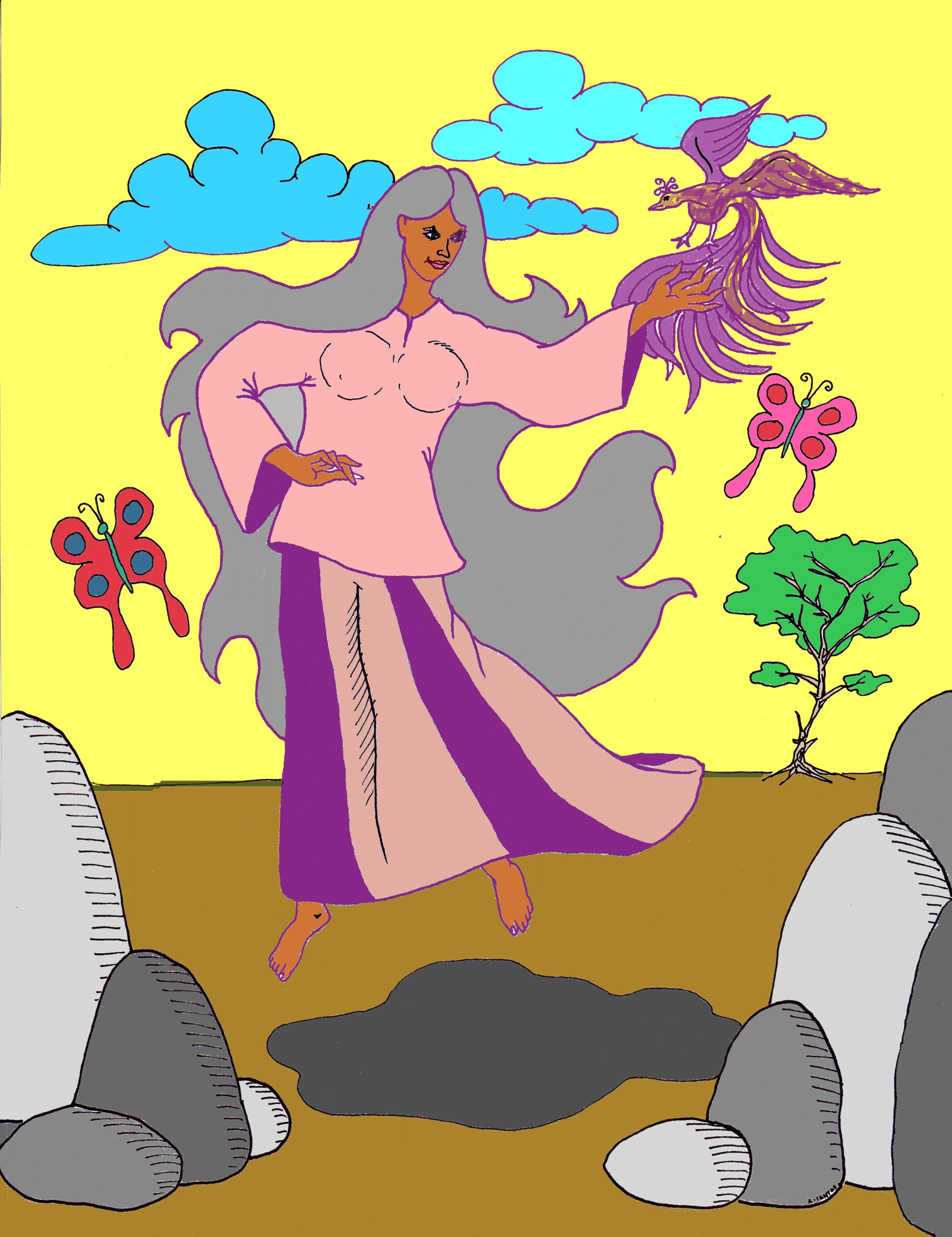 Maria Makiling of Philippine folklore, the guardian goddess/fairy of Mount Makiling. In this illustration, Maria Makiling is depicted descending onto one of her favorite places on Mount Makiling, and greeted by butterflies and birds. This illustration was created by pencil and pen drawing. This drawing was computer enhanced. Colors were also added by electronic means.